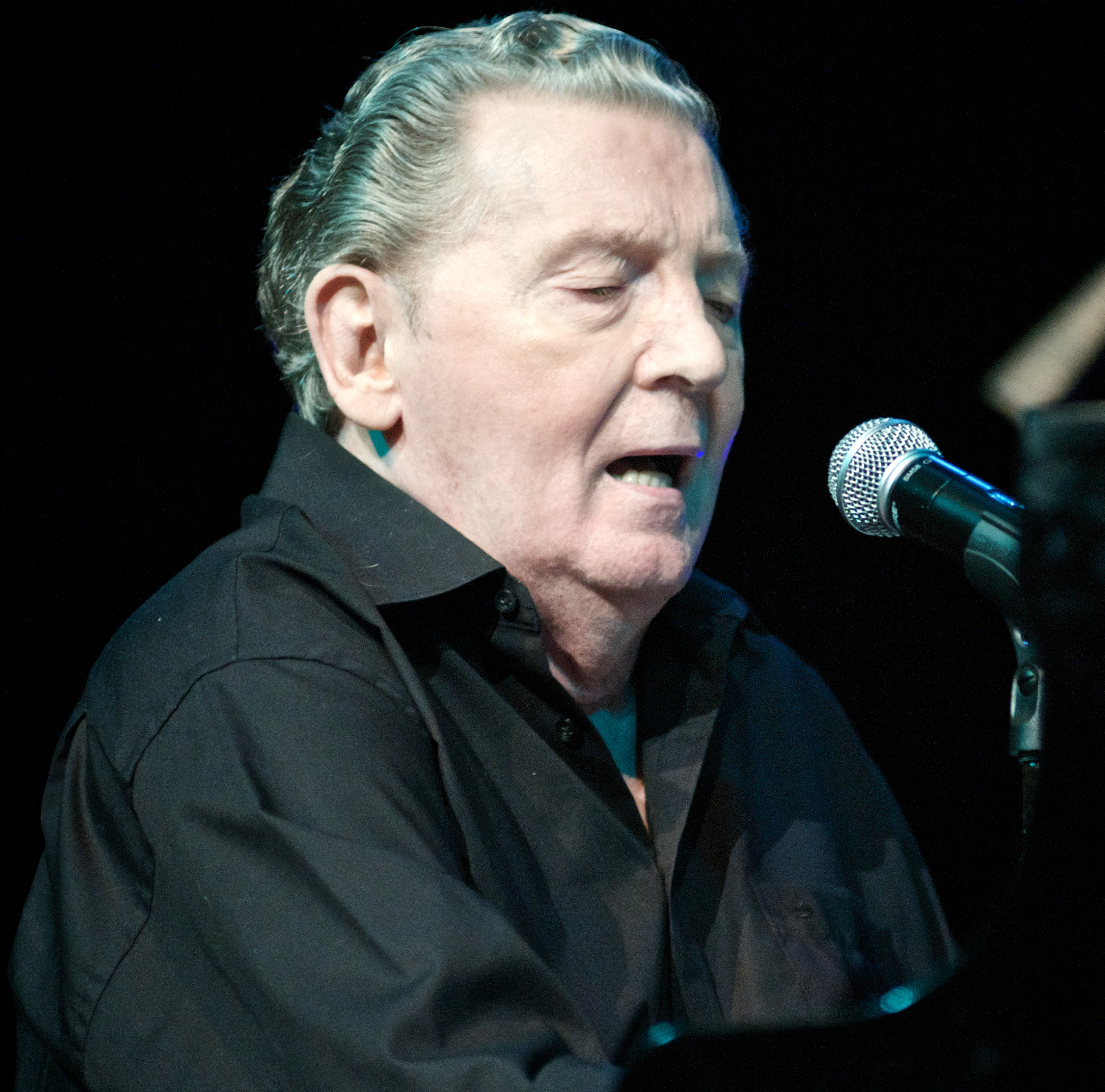 Jerry Lee Lewis in Credicard Hall, São Paulo, Brazil.